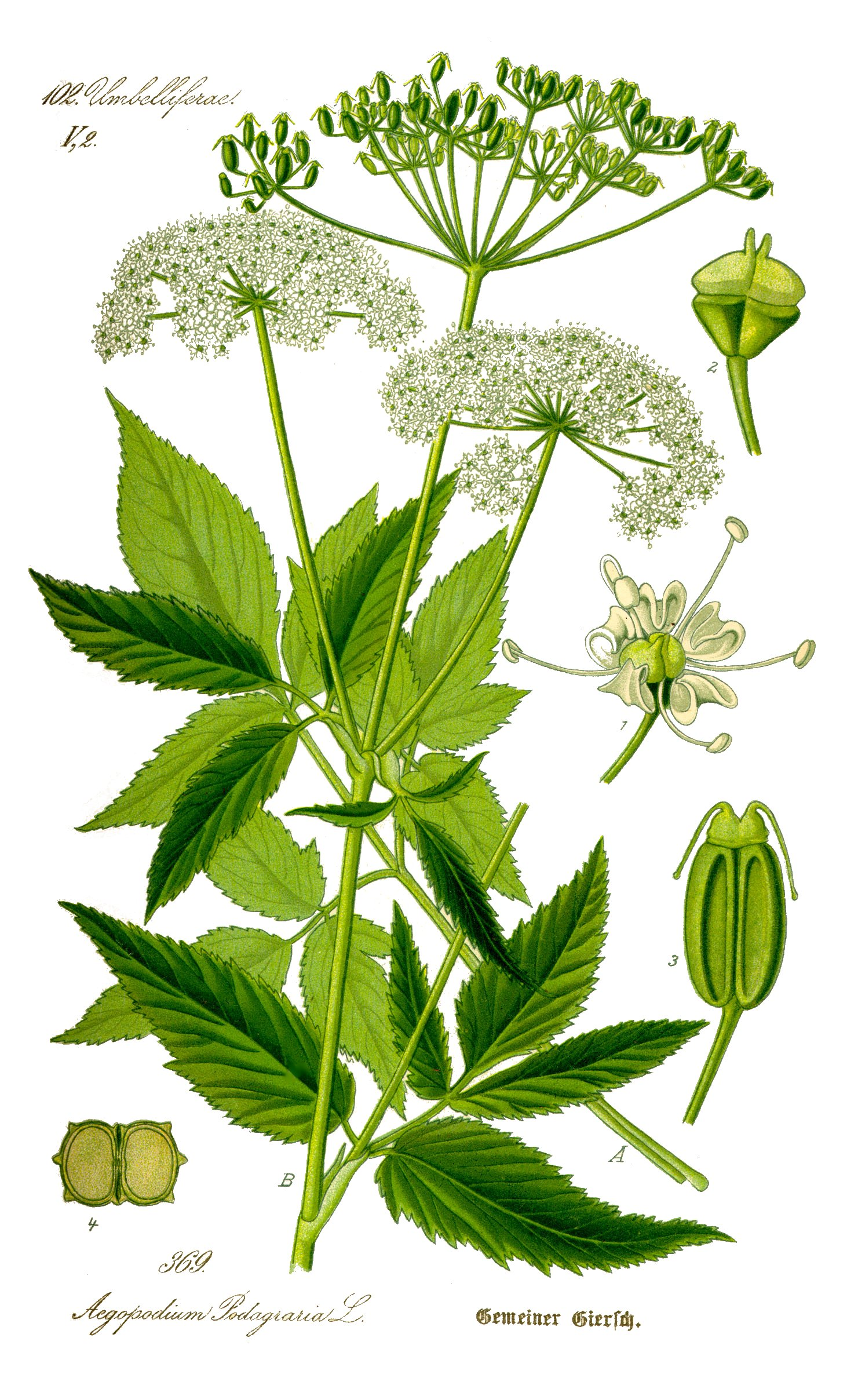 Illustration of Aegopodium podagraria